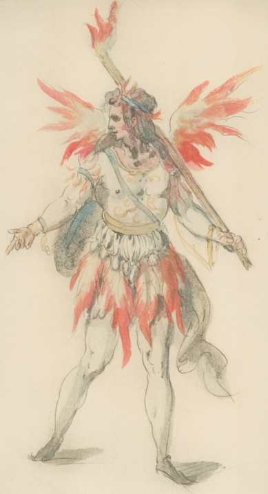 Inigo Jones, Costume design "A page like a fiery spirit"